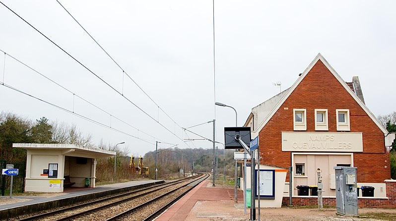 Gare de Namps Maisnil, vue depuis le quai.